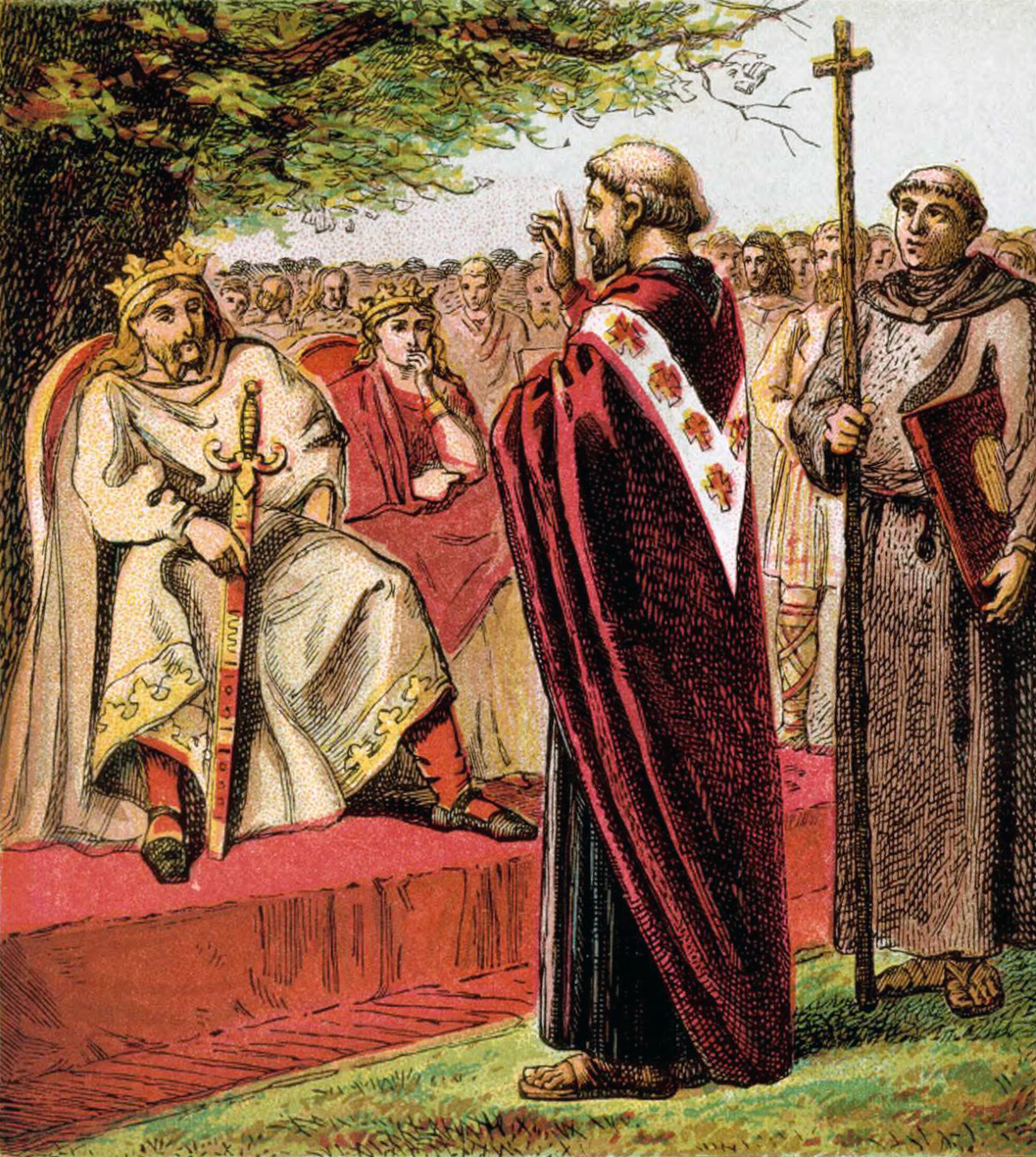 Saint Augustine and the Saxons